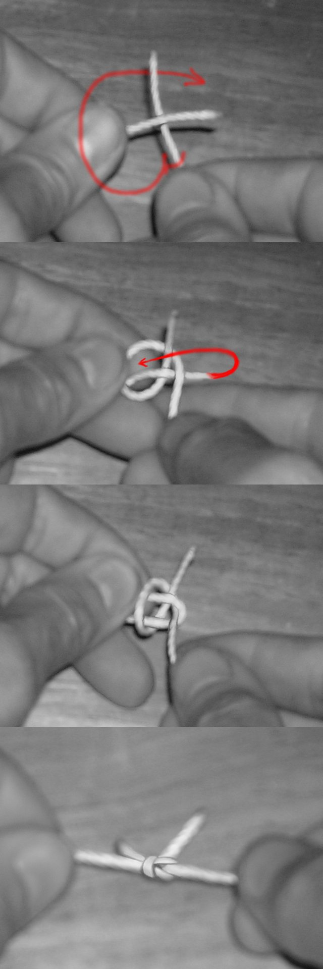 A weaver's knot, showing steps in a method of tying: retouched photographs